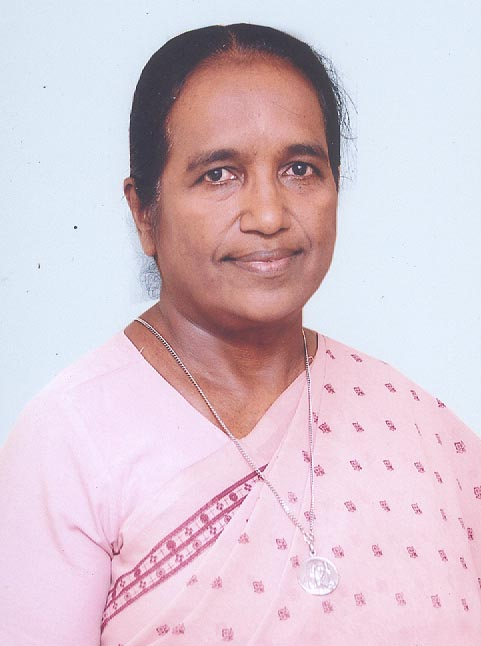 Sister Avelin Mary OSMDepicted person: Avelin Mary – Indian marine biologist